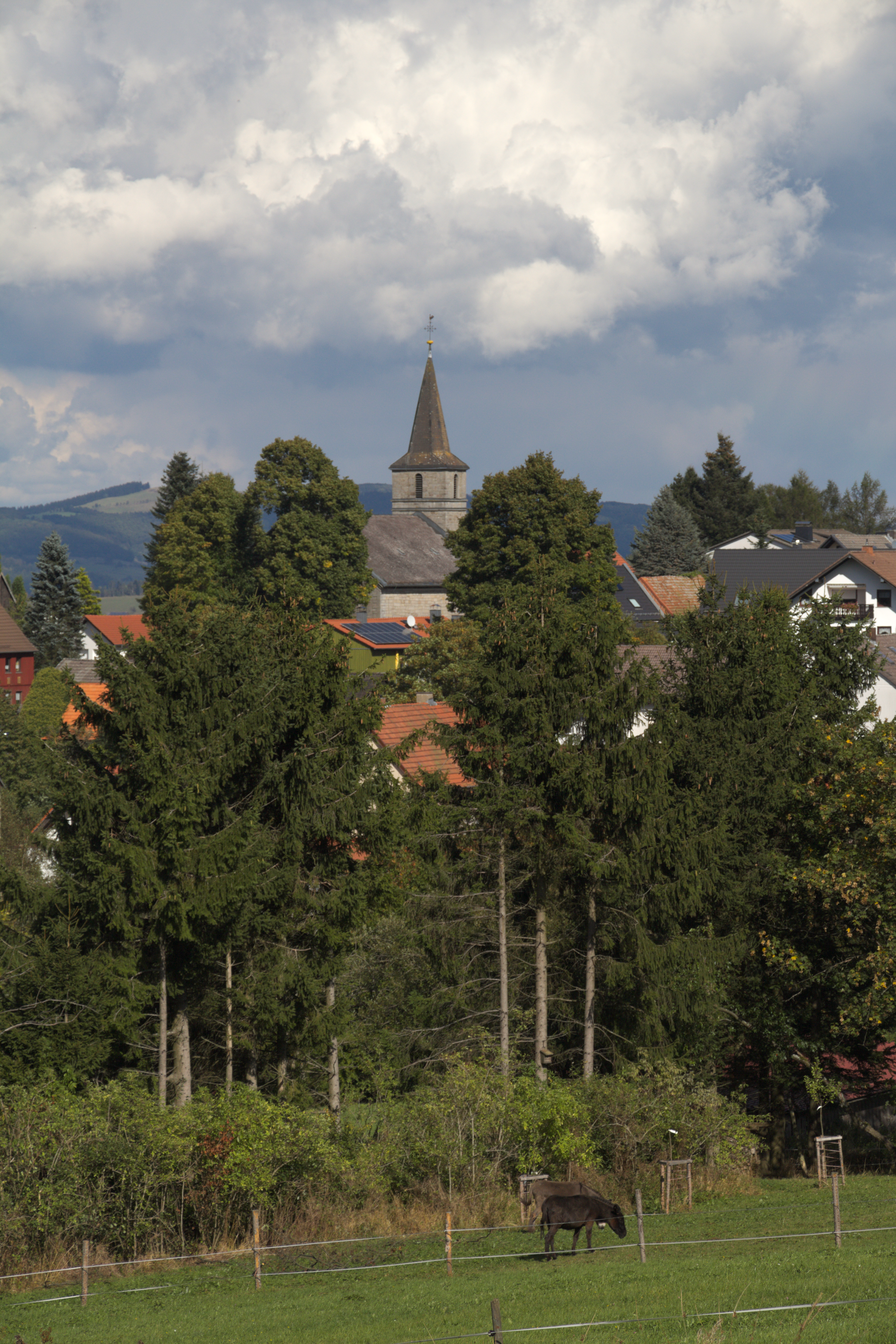 NE view of Dalherda (Detail: Church, Donkeys) , Gersfeld, Hesse, Germany